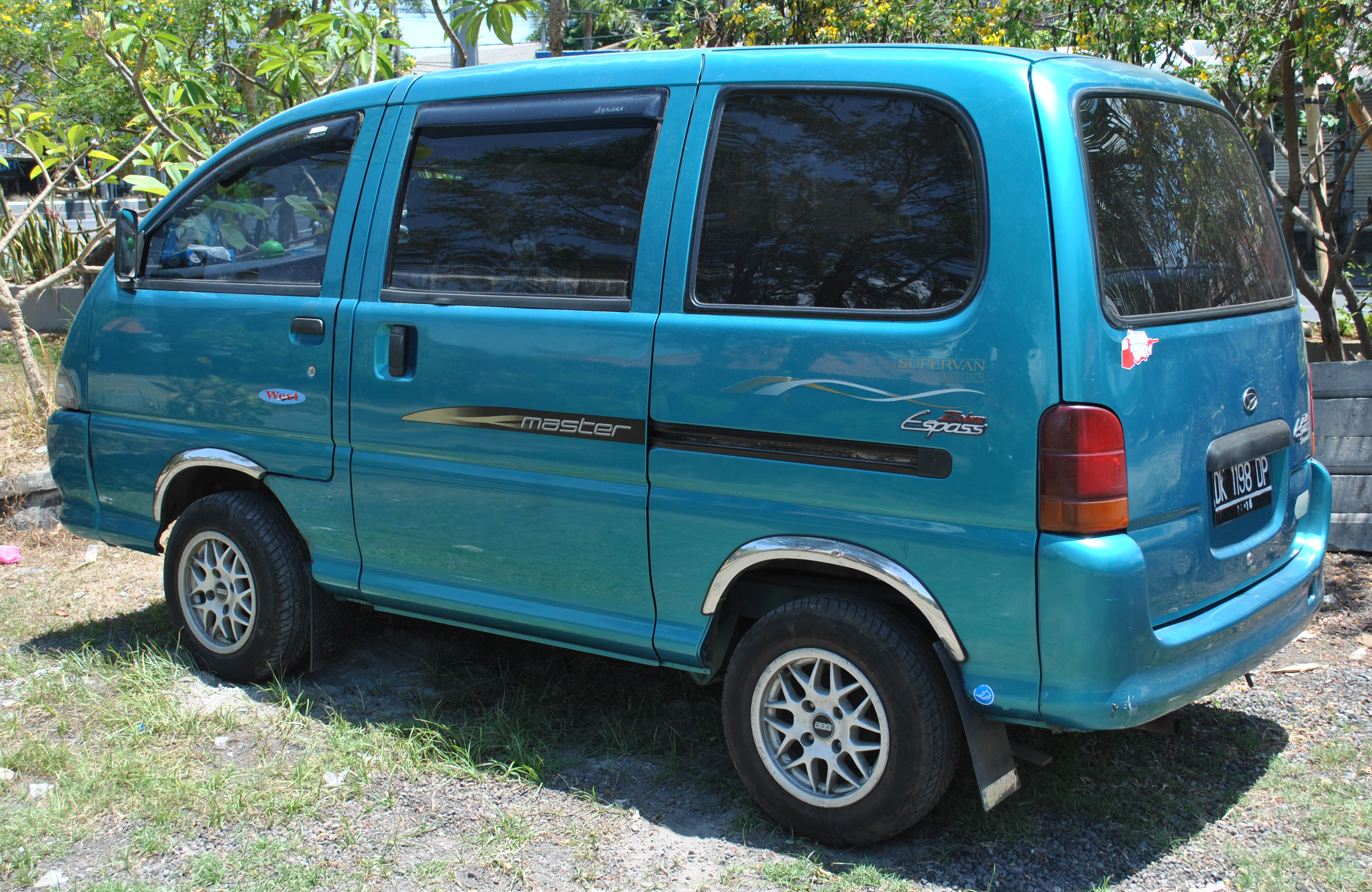 Rear view of a Daihatsu Zebra photographed at Tuban, Badung, Bali.